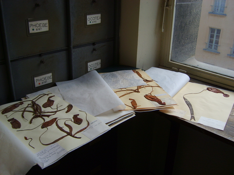 Nepenthes, herbarium specimens deposited at the French National Museum of Natural History in Paris, France.